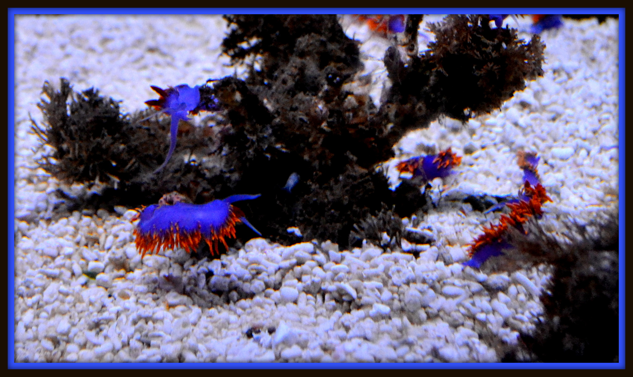 This nudibranch feeds on a species of hydroid (Eudendrium ramosum), which possesses a pigment called astaxanthin. This pigment gives the Spanish shawl nudibranch its brilliant color. In the Spanish shawl nudibranch, the astaxanthin shows up in 3 different states, creating the purple, orange and red colors found on this species. Astaxanthin is also found in other marine creatures, including lobsters (which contributes to the lobster's red appearance when cooked), krill, and salmon.